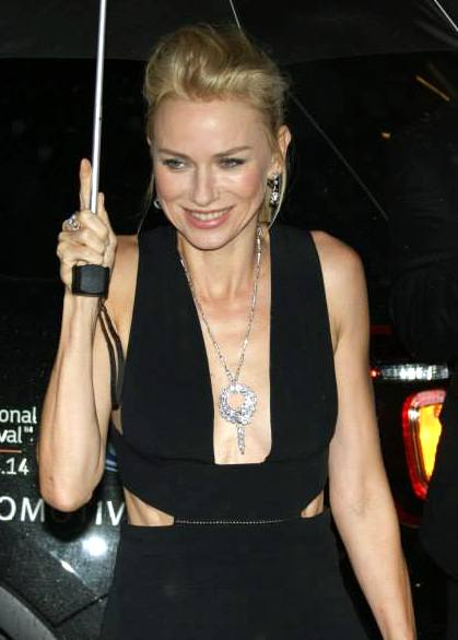 Unfortunately, it was pouring. I had to pack away the camera, so this was the only shot. Naomi Watts at the premiere of St Vincent, 2014 Toronto Film Festival